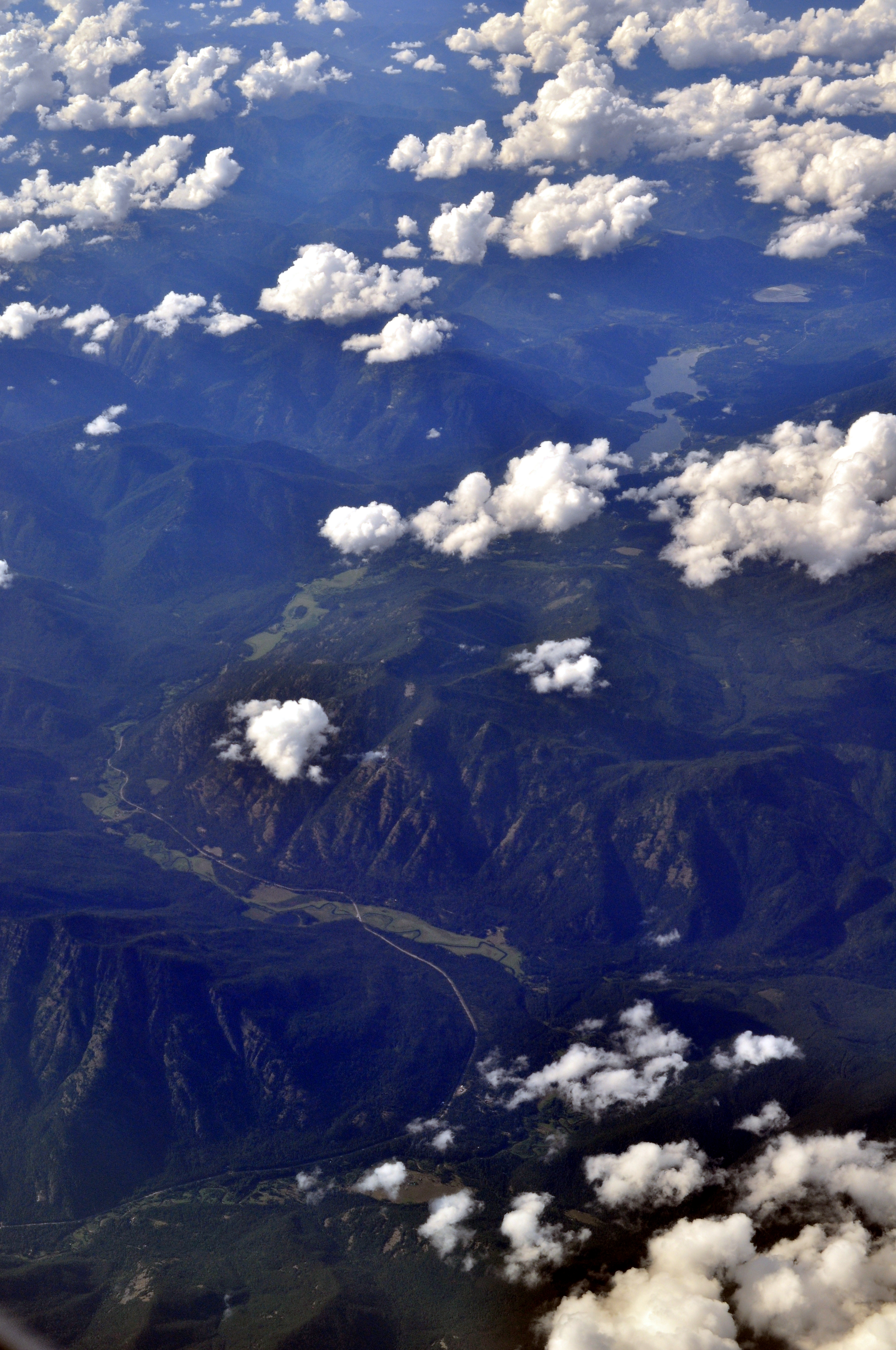 Aerial view of Bull Lake, Kootenai National Forest, in Lincoln County near Libby, Montana, U.S. View roughly from south by southwest.